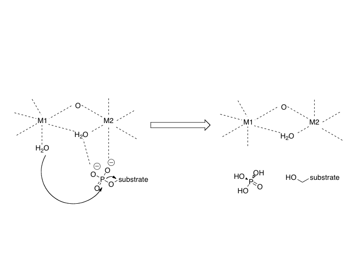 Simple Mechanism of PP1